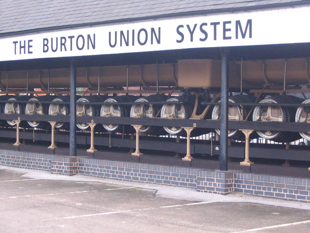 Burton Union Fermentation System, Coors Visitor Centre The Burton Union system was originally used to create Draught Bass. These interlinked casks are currently situated outside the Coors Visitor Centre (formerly the Bass Museum).